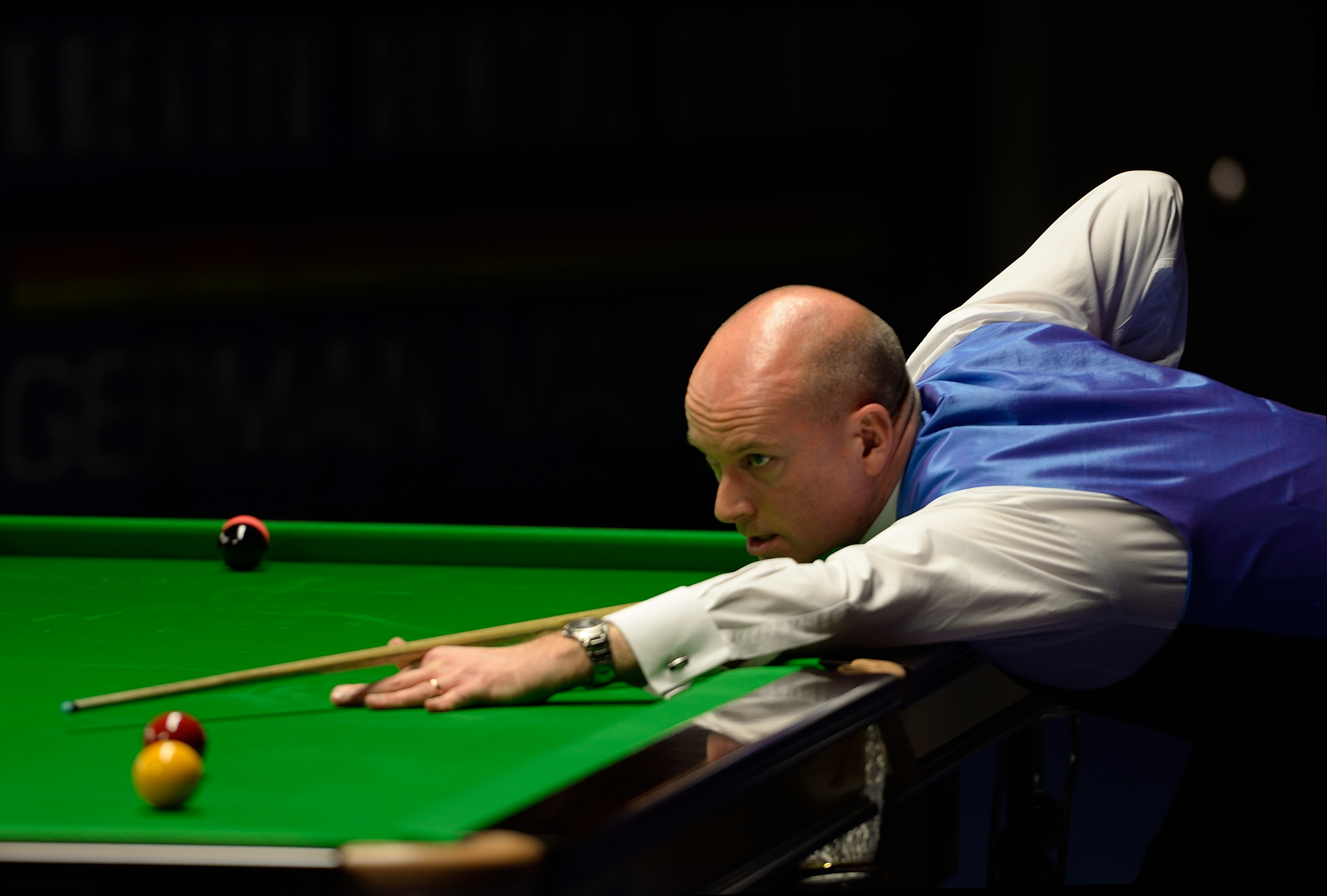 Picture taken in Berlin during the Snooker German Masters in 2015. Peter Ebdon.